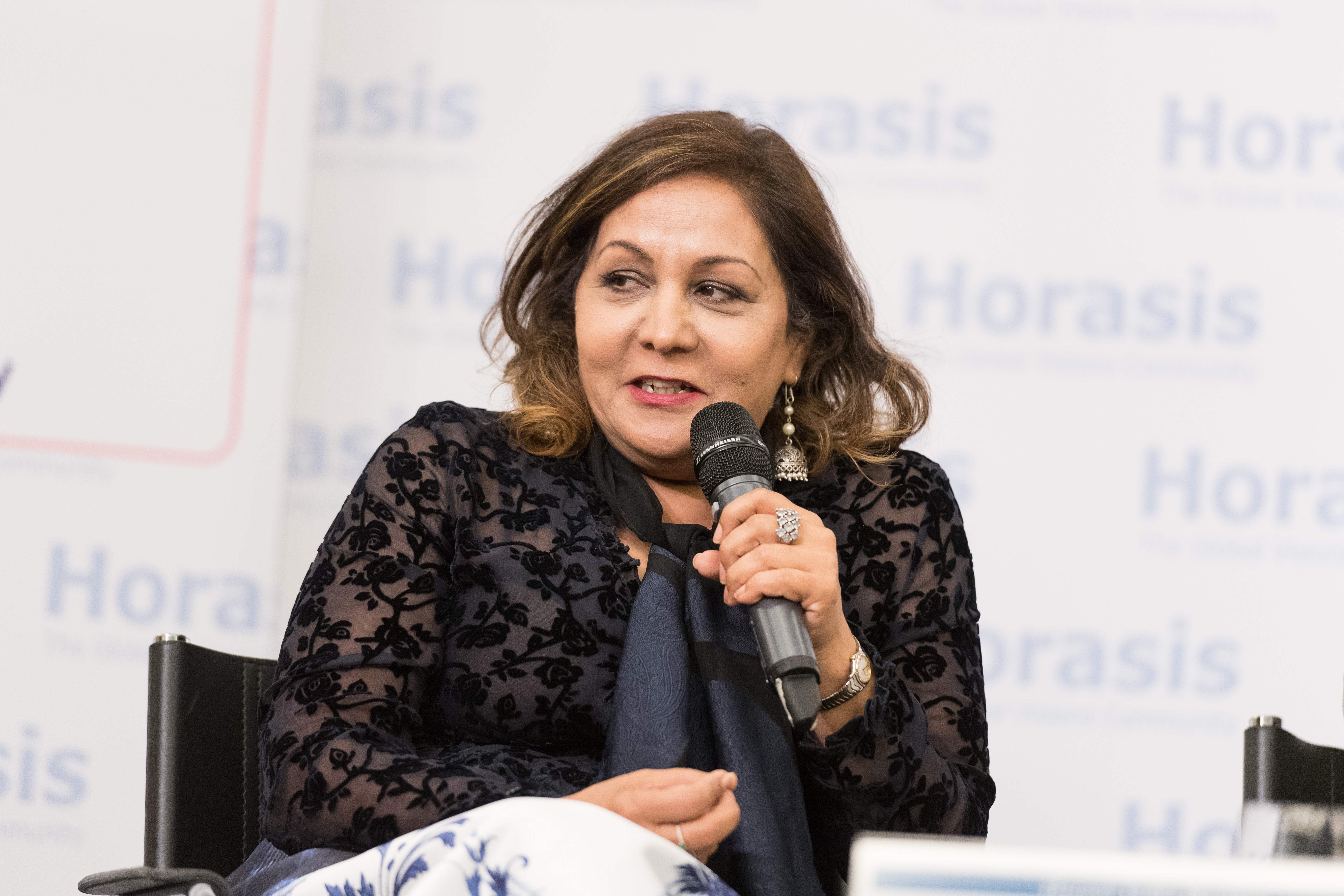 Neena Gill, Member of the European Parliament, about BREXIT and India